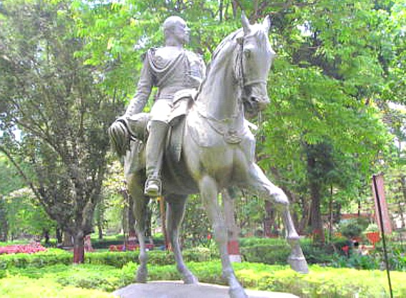 Statue housed at Rani bagh